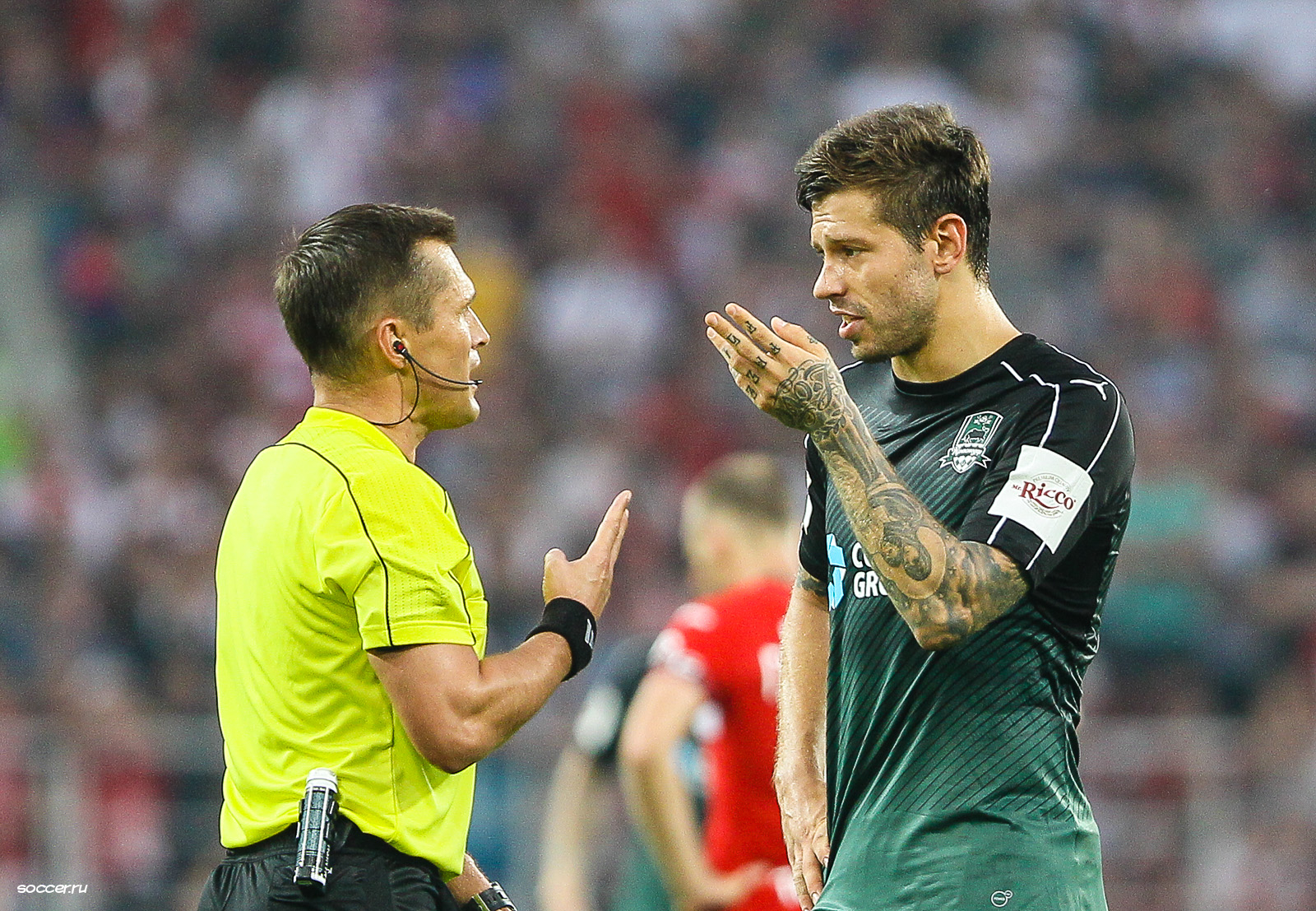 Fyodor Smolov